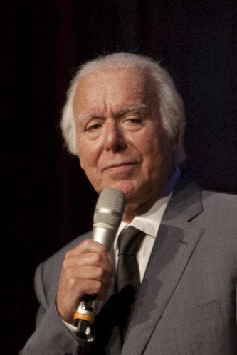 Carlos do Carmo, 2013